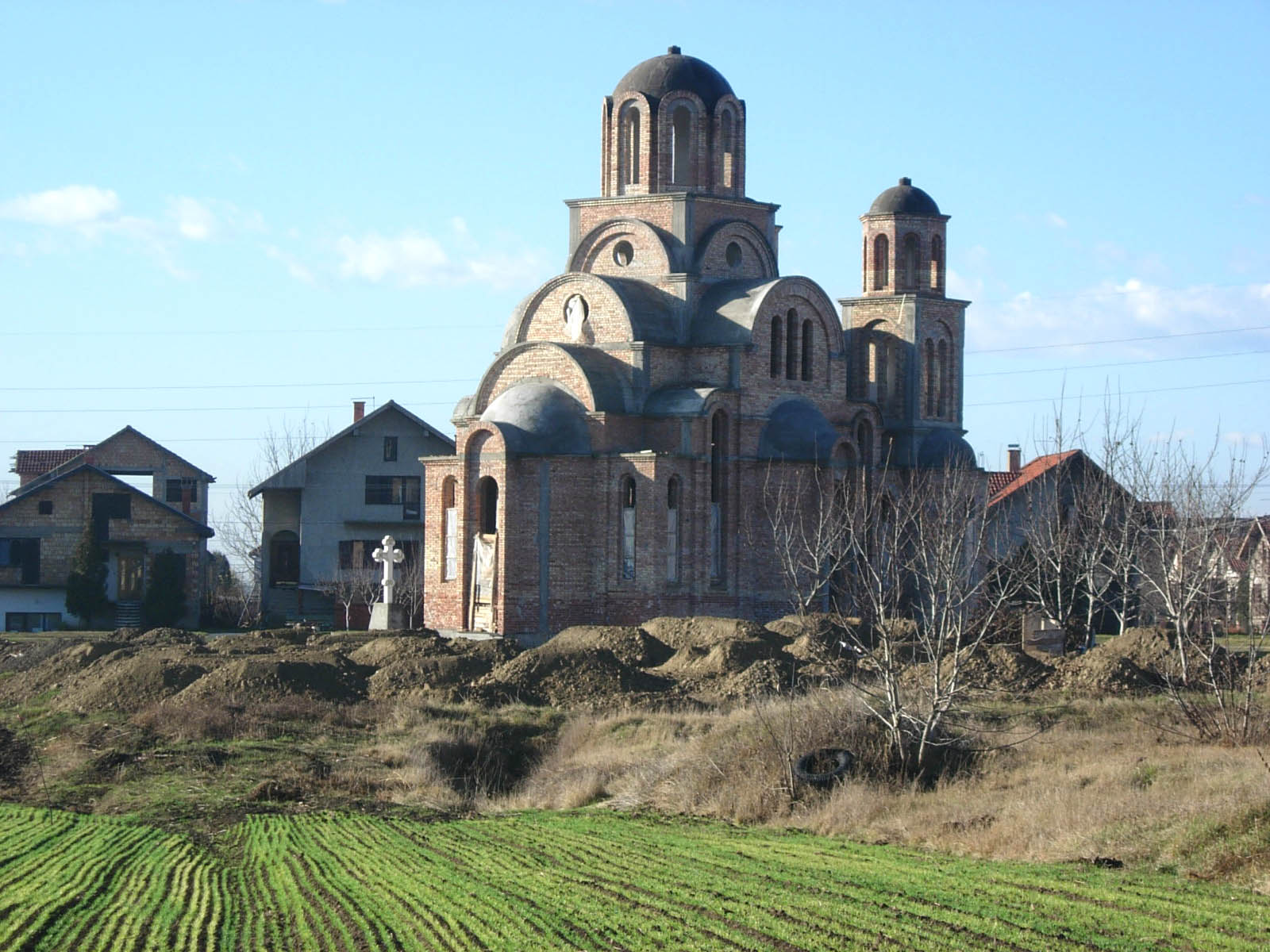 The new Orthodox church in Inđija.